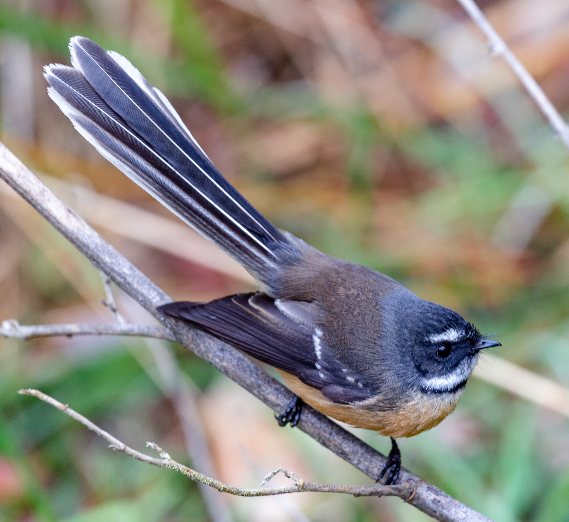 Rhipidura fuliginosa, Pines Beach, New Zealand